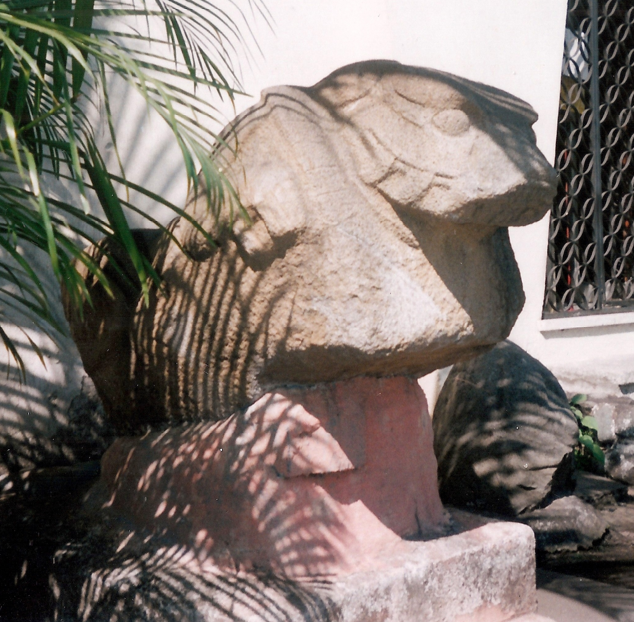 Prehispanic sculpture outside the Regional Archaeology Museum in La Democracia, Escuintla, Guatemala.